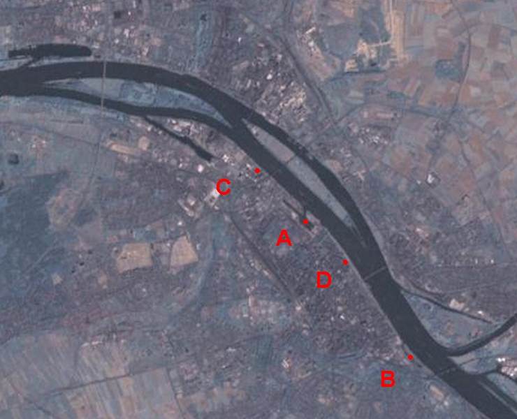 The locations of the most important current and past port facility locations of the Port of Mainz: A = Zollhafen (former industrial port and container terminal, also approximate location of old Roman trade port) B = Winterhafen (old winter berthage port/basin) C = Ingelheimer Aue (former logging-raft port, now industrial area and present container terminal) D = Rheinufer, Altstadt (old town riverfront, excursion ship quays, also approximate location of old Roman naval port)